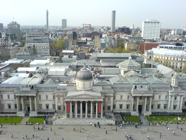 National Gallery from atop Nelson's Column, Trafalgar Square, London